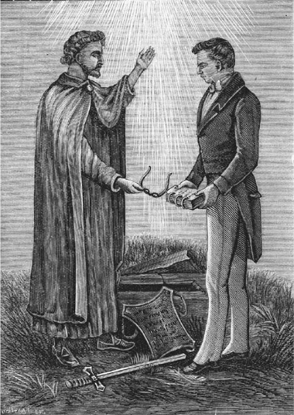 A 1893 engraving by Edward Stevenson of the Angel Moroni delivering the Golden Plates to Joseph Smith in 1827. From Reminiscences of Joseph, the Prophet (Salt Lake City: Stevenson, 1893), 21.